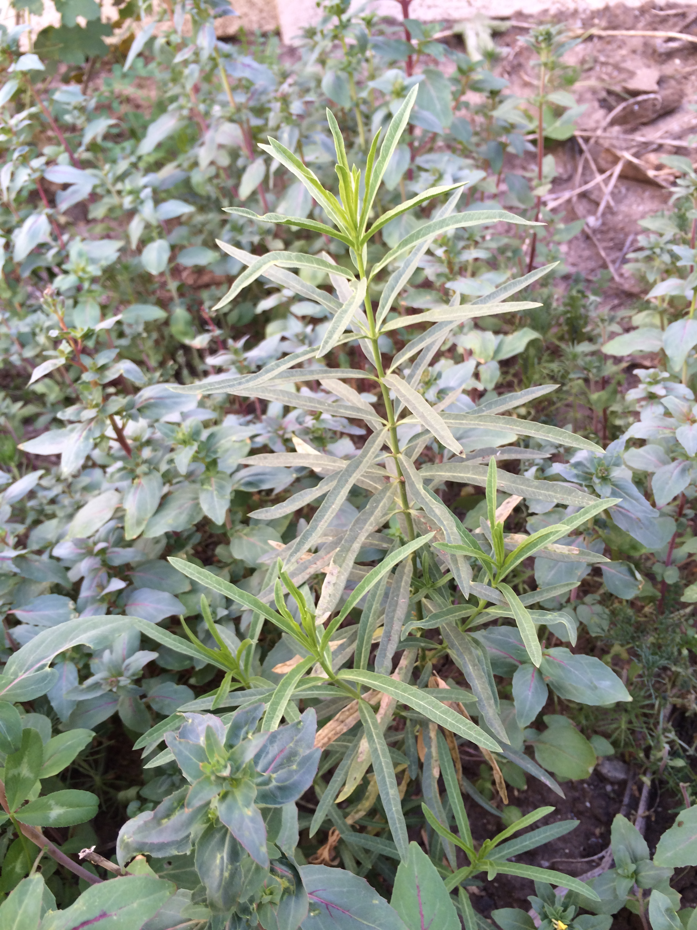 Asclepias fascicularis, Narrowleaf Milkweed